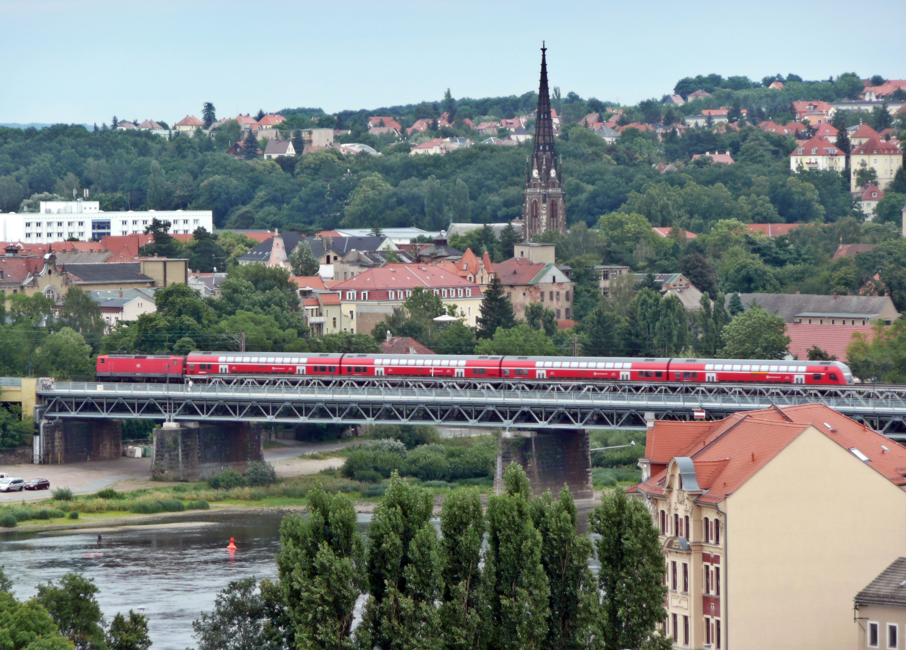 This image shows the railway bridge over the Elbe in Meißen (built 1926, length: 256 metres).